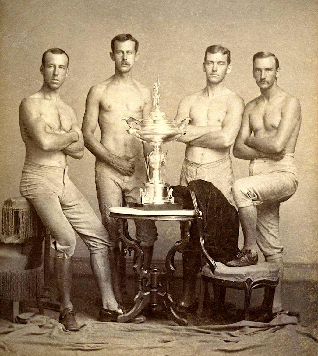 Photograph of Yale's four-oared crew team, posing with the trophy for the 1876 Centennial Regatta, won at Philadelphia, Pennsylvania. Image courtesy of the Yale University Manuscripts & Archives Digital Images Database. Retouched by MarmadukePercy.